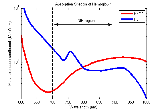 Absorption spectra of oxygenated hemoglobin (HbO2) and deoxygenated hemoglobin (Hb) for Near-infrared wavelengths (NIR)